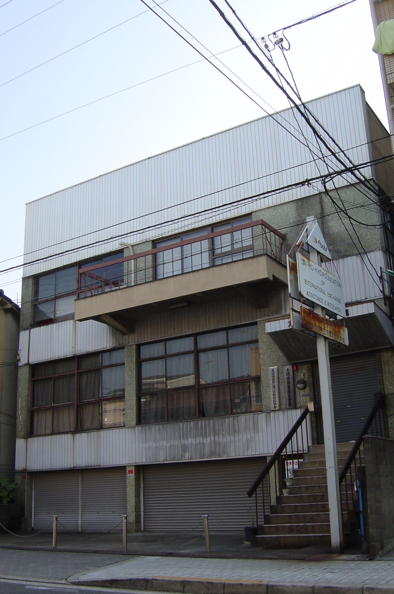 Kumata daiyuu 1